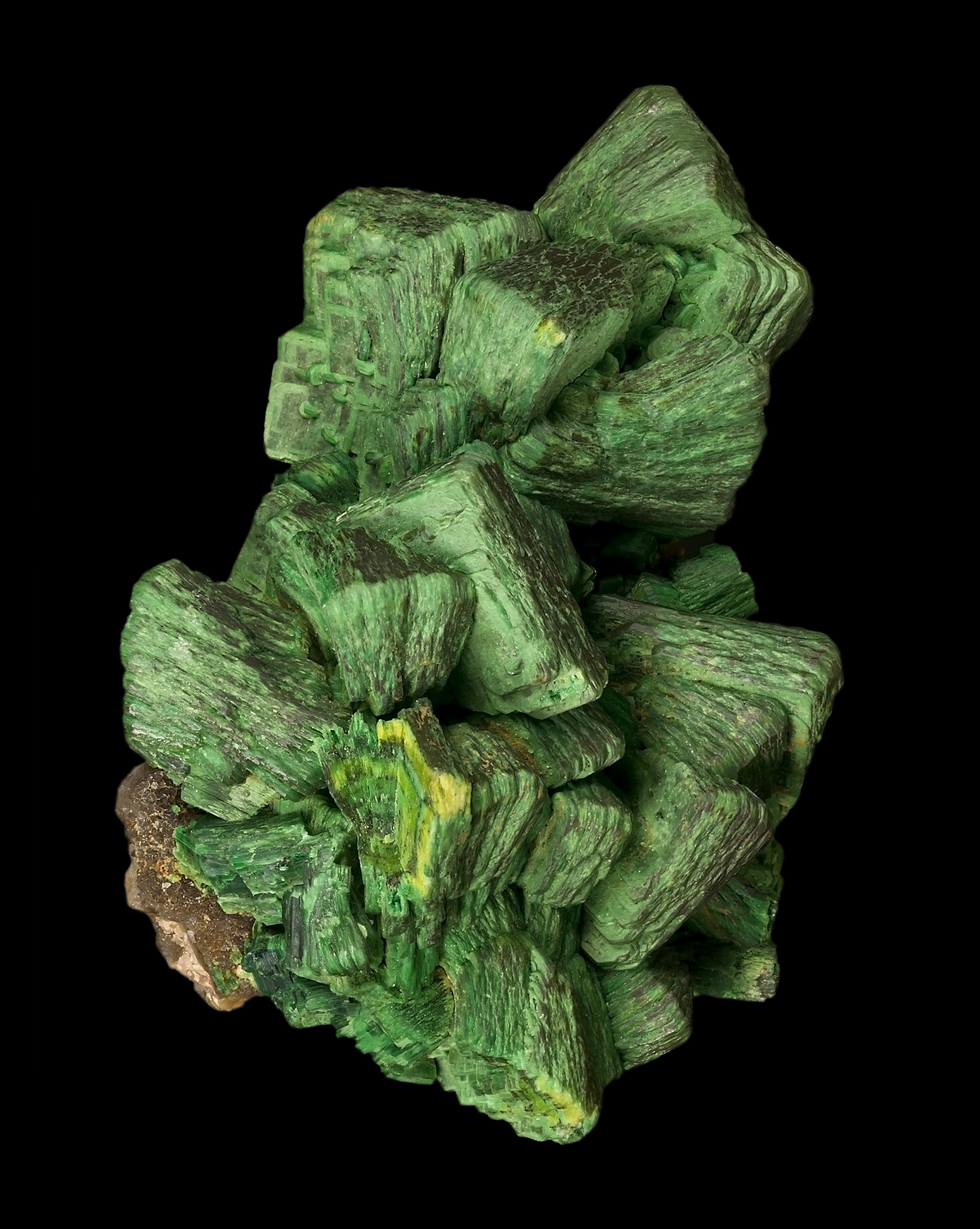 Metatorbernite Locality: Margabal Mine, Entraygues-sur-Truyère, Aveyron, Midi-Pyrénées, France) Size: 4 x 3x 1.8 cm.